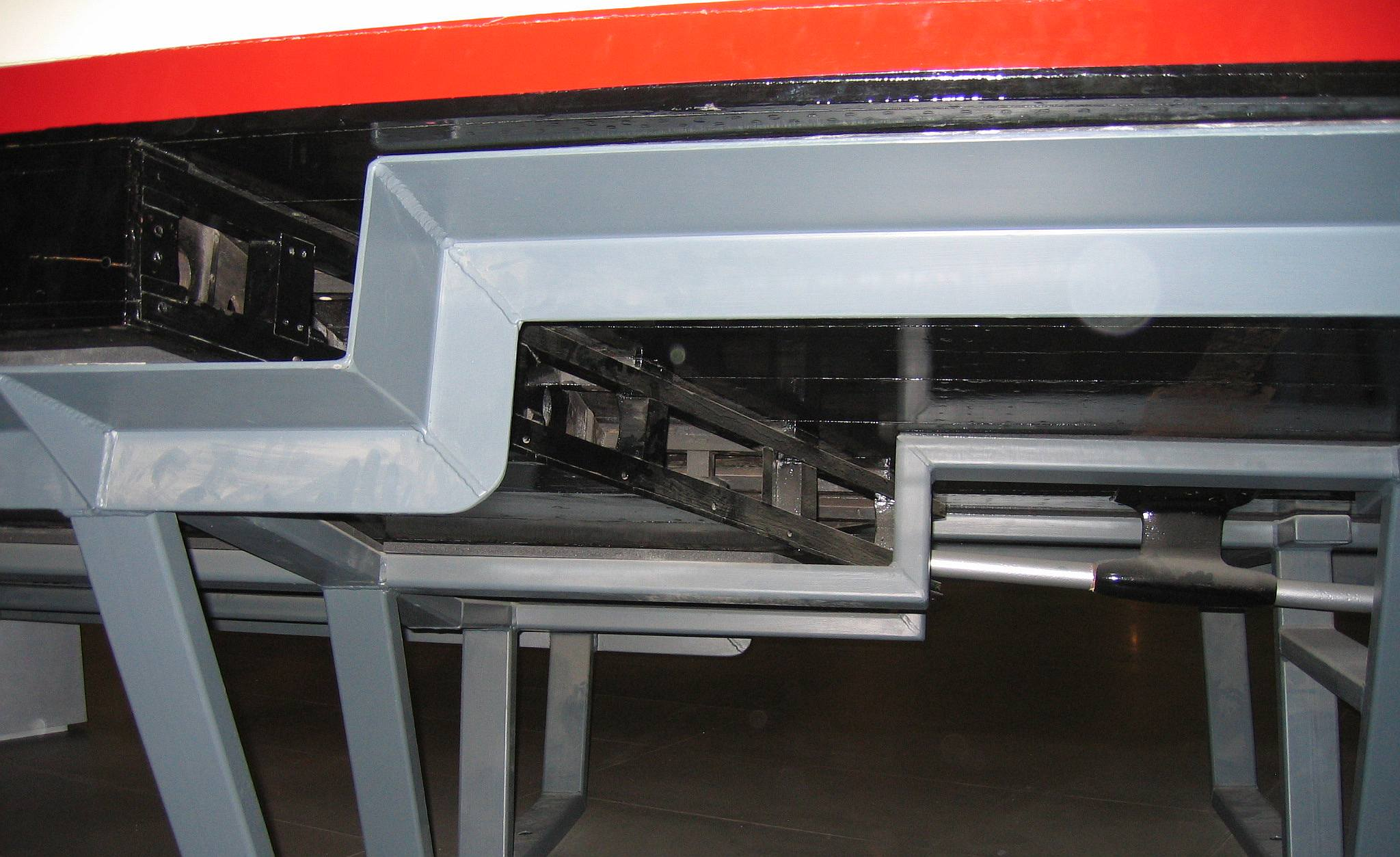 Under-hull view of Miss England I, showing the planing step and propellor shaft. Note the flimsy construction of the step, entirely external to the hull proper. Located at the Science Museum, London. The grey steel framework is there to support the hull.